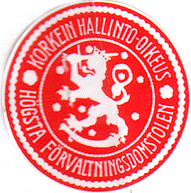 Seal of the Supreme Administrative Court of Finland